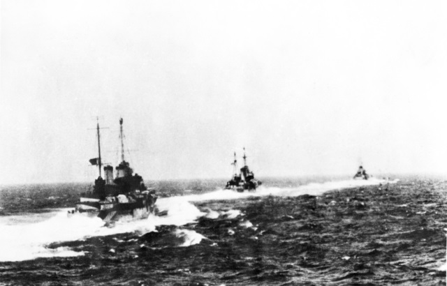 HMAS PERTH, HMS AJAX AND HMS ORION AT THE BATTLE OF MATAPAN IN THE IONIAN SEA, SEEN FROM HMS GLOUCESTER.